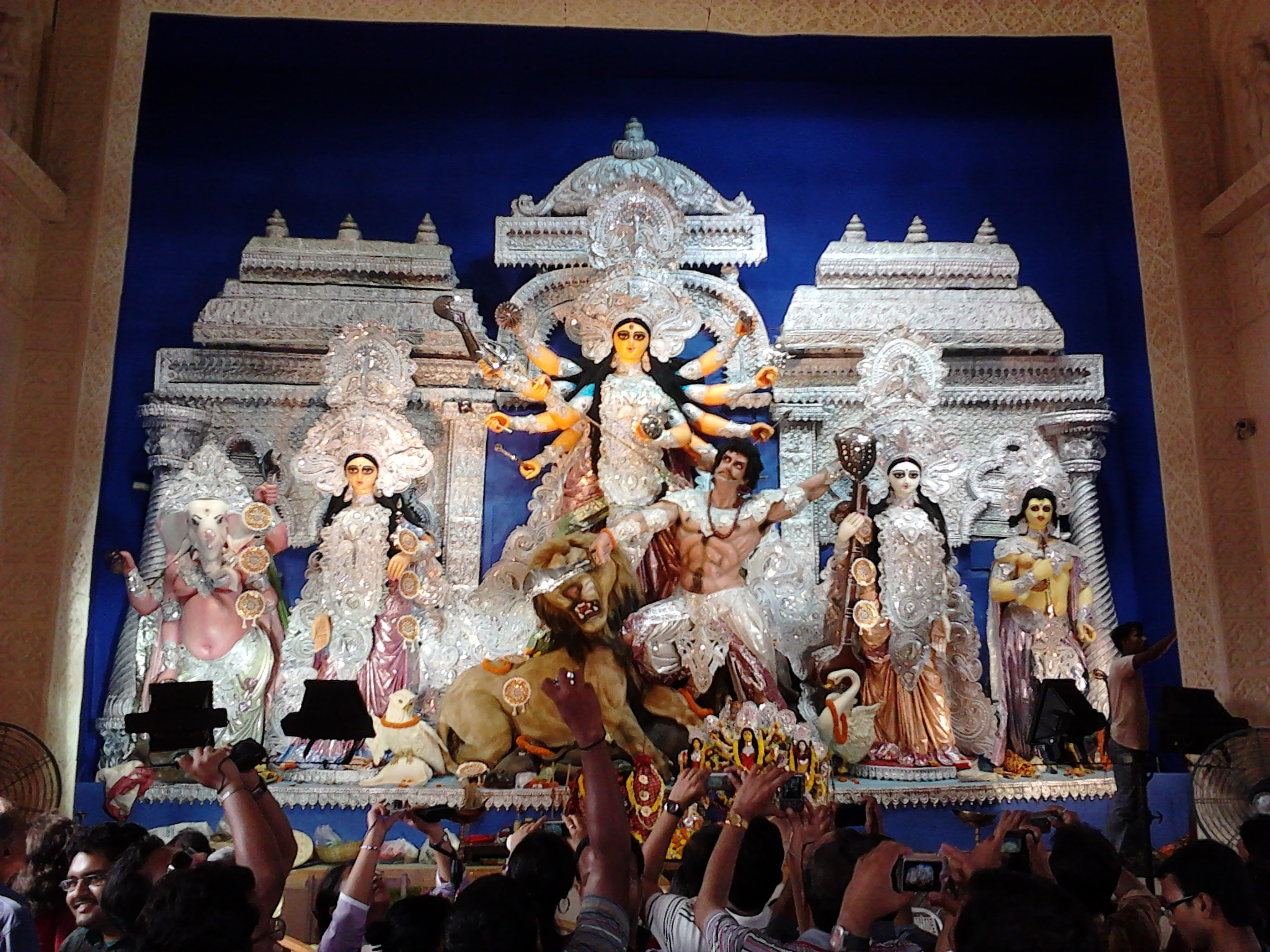 The Durga Puja celebration also referred to as Durgotsava (festival of goddess Durga) in Kolkata. This media file is uploaded with India loves Wikipedia event.